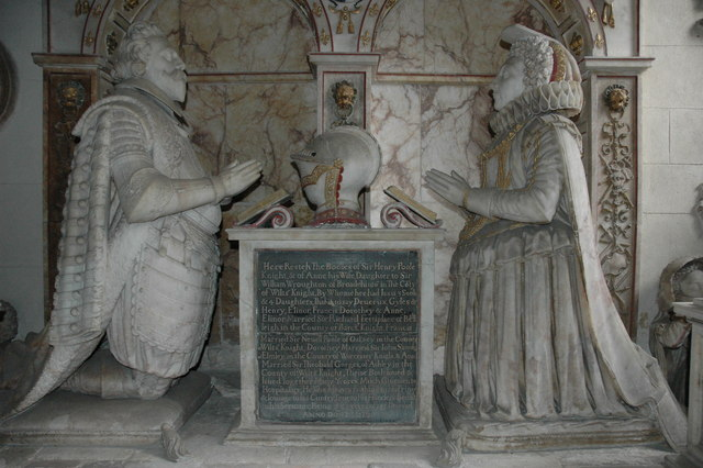 Monument of Sir Henry and Lady Anne Poole, Sapperton Church This monument of Sir Henry Poole and his wife, Lady Anne, is in the north transept of Sapperton church. Sir Henry Poole died in 1616, the couple had seven children, three sons and four daughters, carved figures of their children surround the monument.